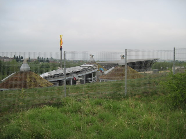 A Good Idea but it Failed. Buildings at the Earth Centre closed and deterioting.